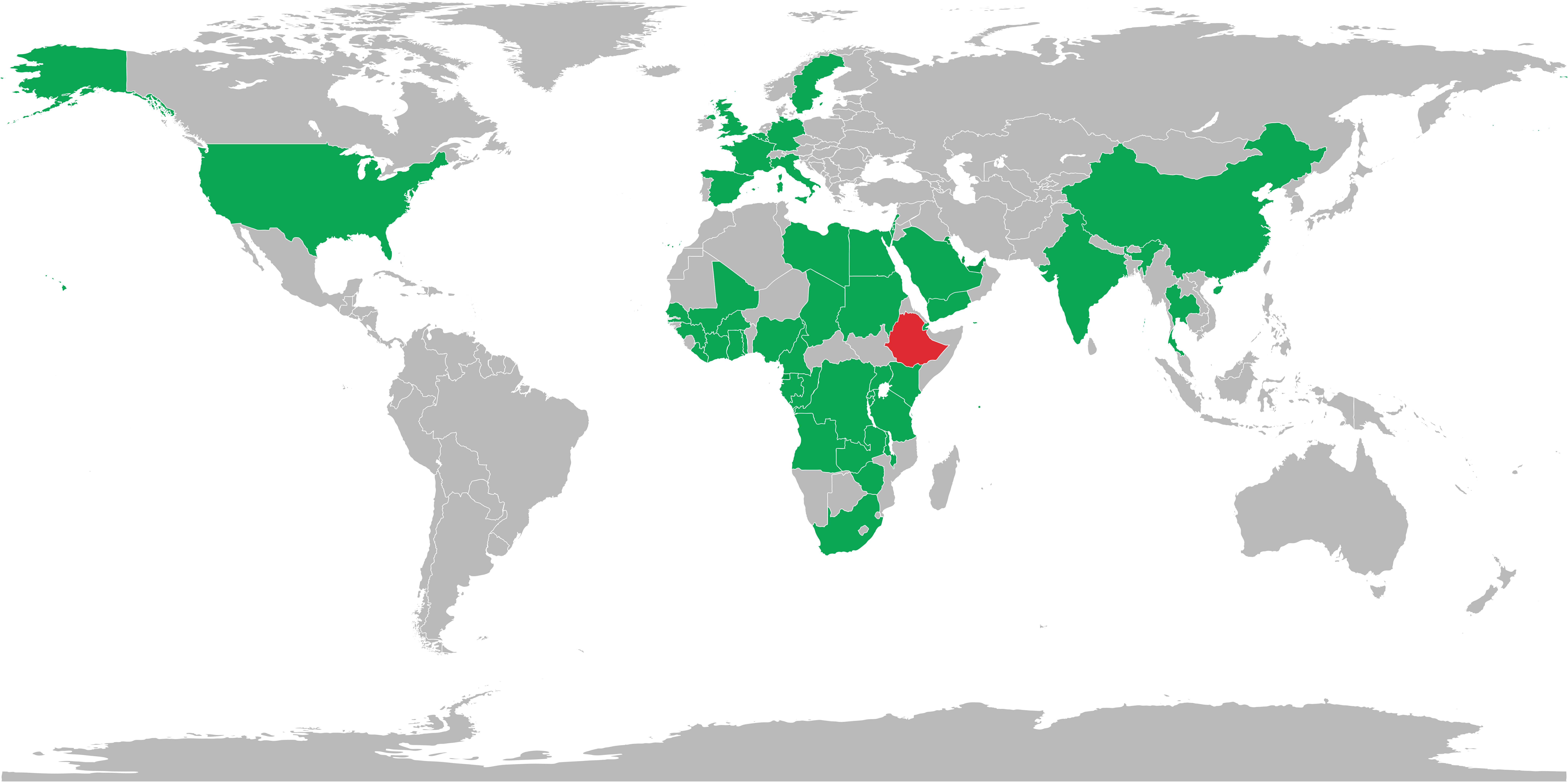 Map of Ethiopian Airlines destinations